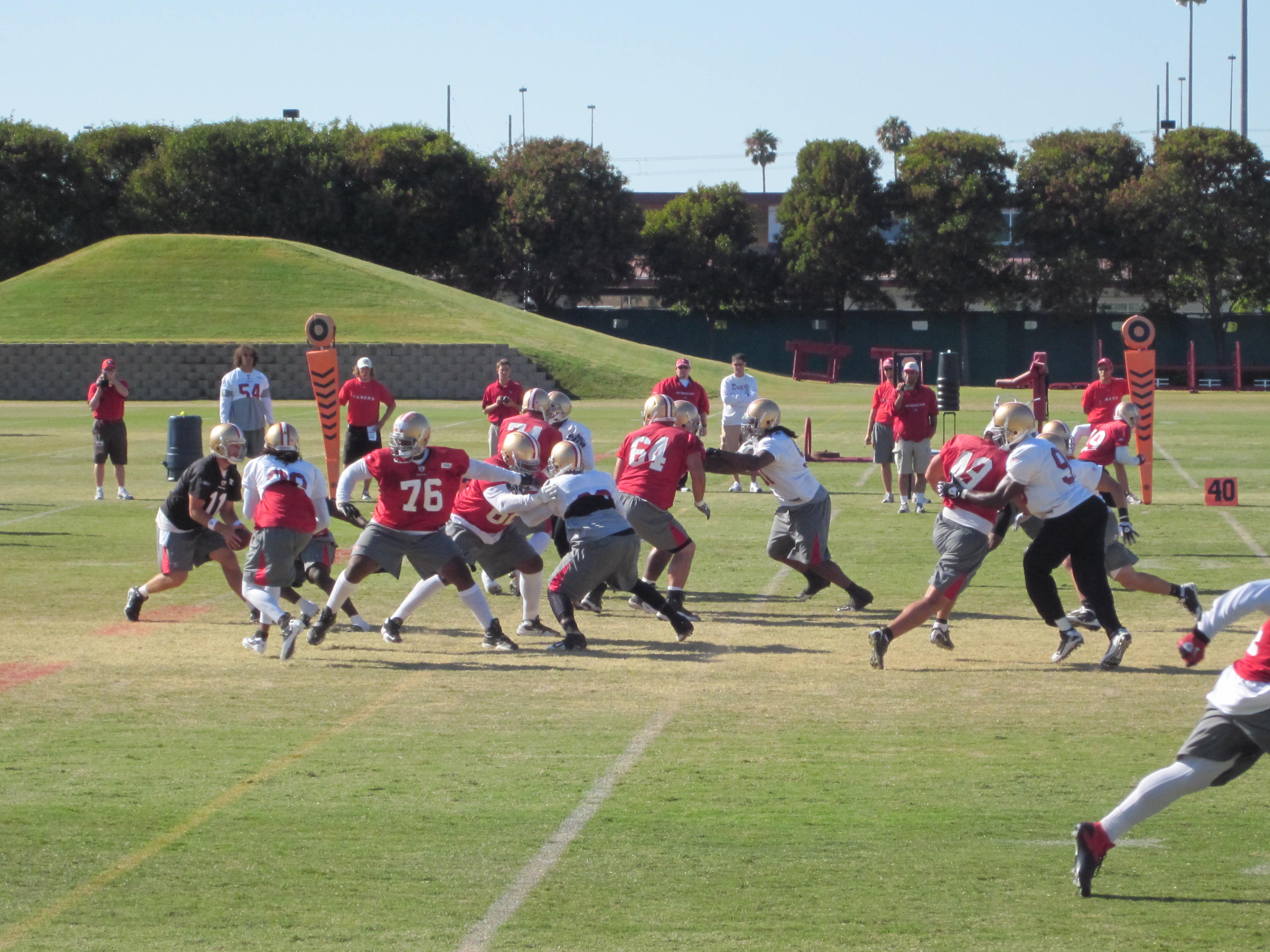 The San Francisco 49ers conduct training camp at the team's headquarters and practice facility in Santa Clara, California.